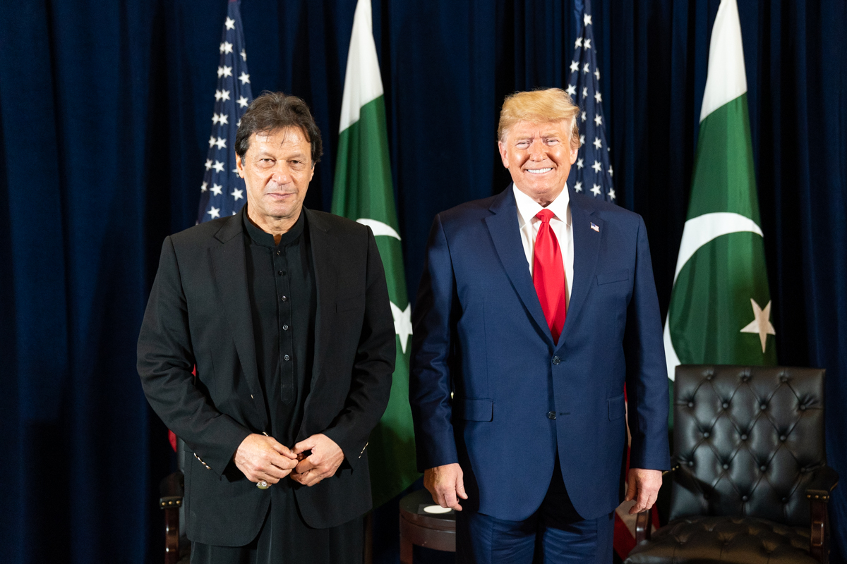 President Donald J. Trump participates in a bilateral meeting with Pakistan Prime Minister Imran Khan Monday, Sept. 23, 2019, at the InterContinental New York Barclay in New York City. (Official White House Photo by Shealah Craighead)